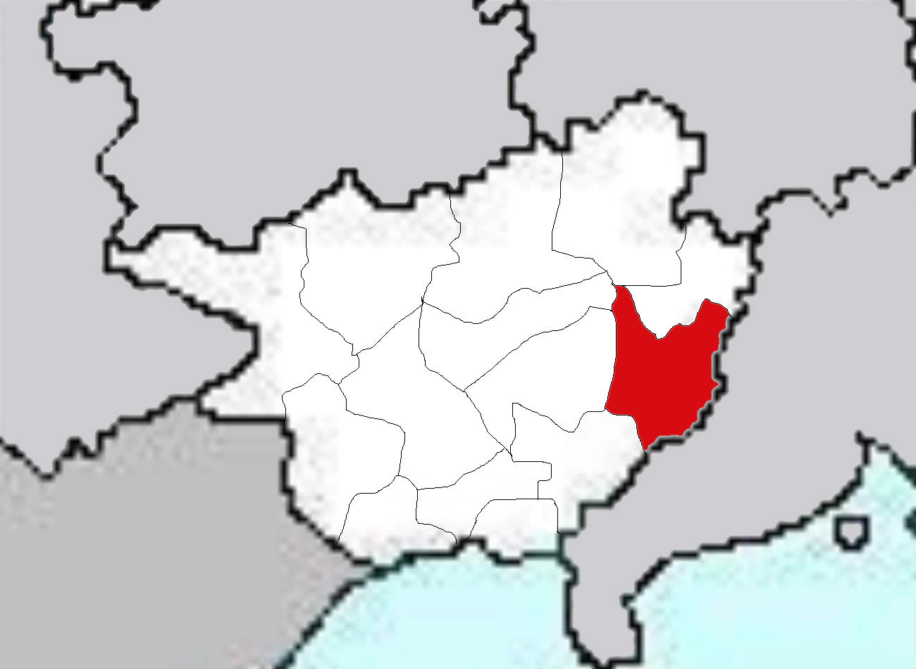 Maps of Guangxi Autonomous Region of China.